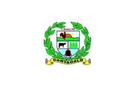 Flags of the city of Cantagalo, Minas Gerais, Brazil.